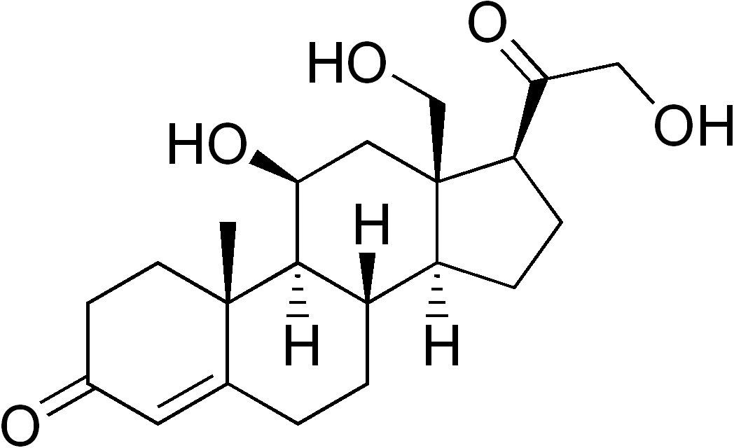 I made it myself using ACD/ChemSketch